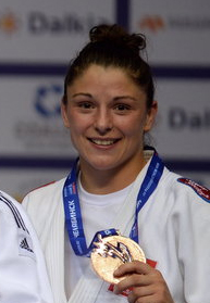 Kłys Katarzyna, Polish judoka